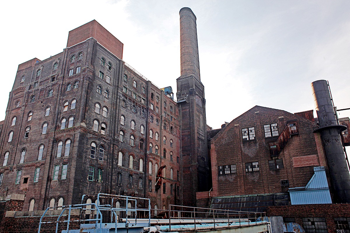 The oldest buildings of the Domino Sugar Brooklyn Refinery complex.